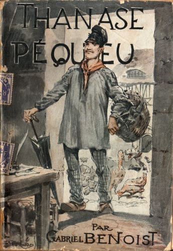 Cover of Les Histouères de Thanase Pèqueu, published by Rouen, a collection of stories in the Norman language